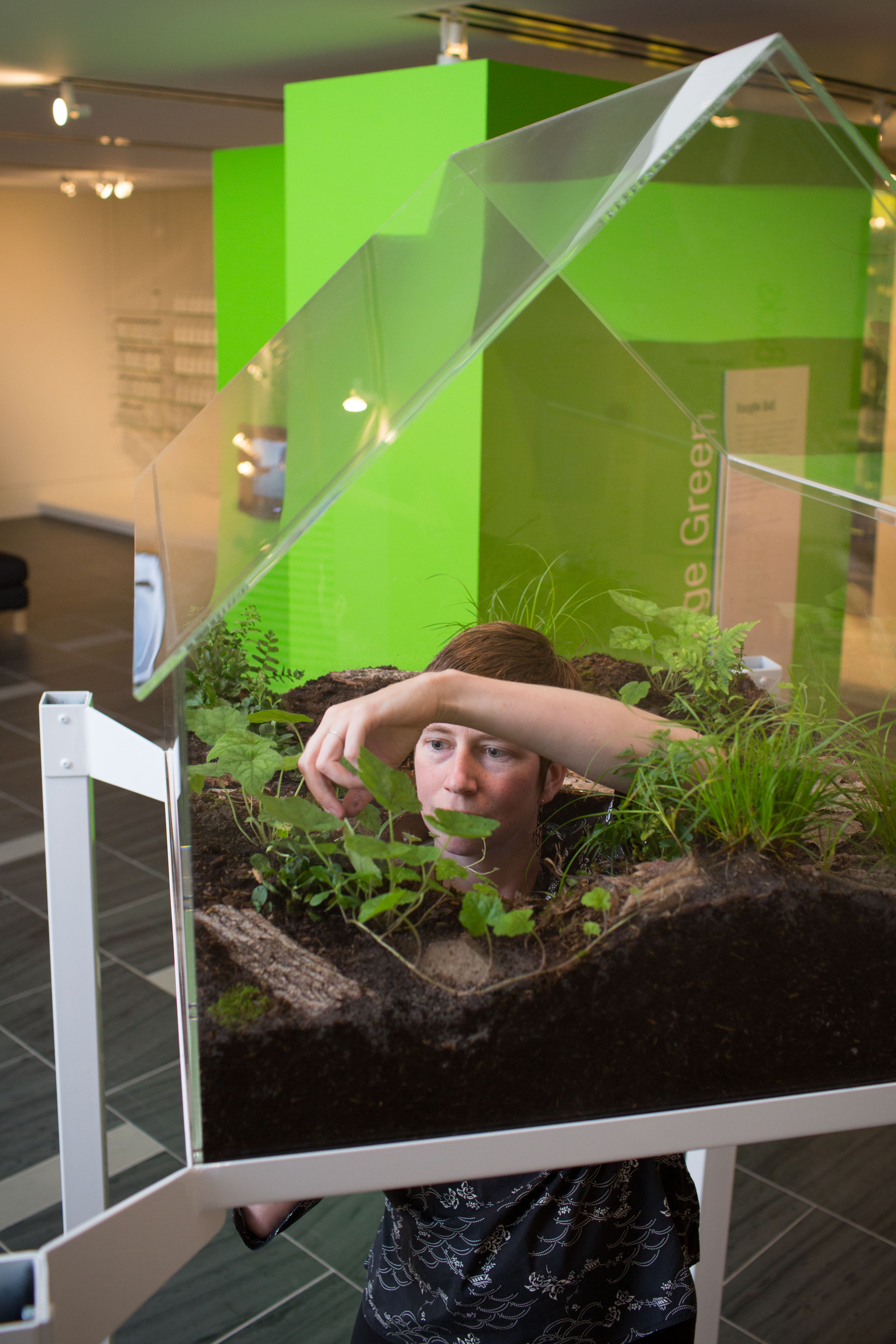 Photograph of Vaughn Bell, artist, preparing part of her installation, "Village Green", for the 2013 Sensing Change exhibit at the Chemical Heritage Foundation, Philadelphia, PA, USA.